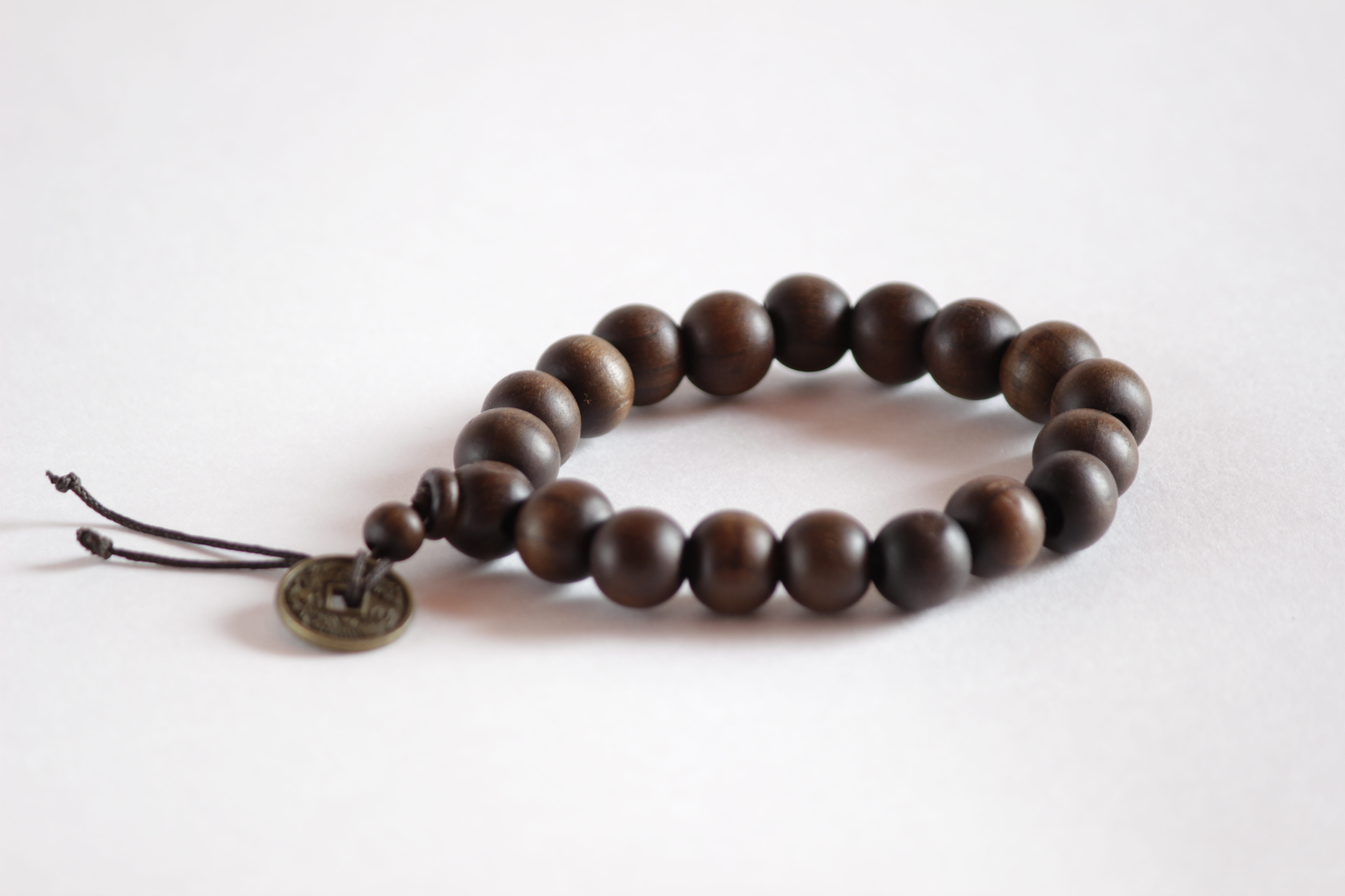 Buddhist wooden rosary